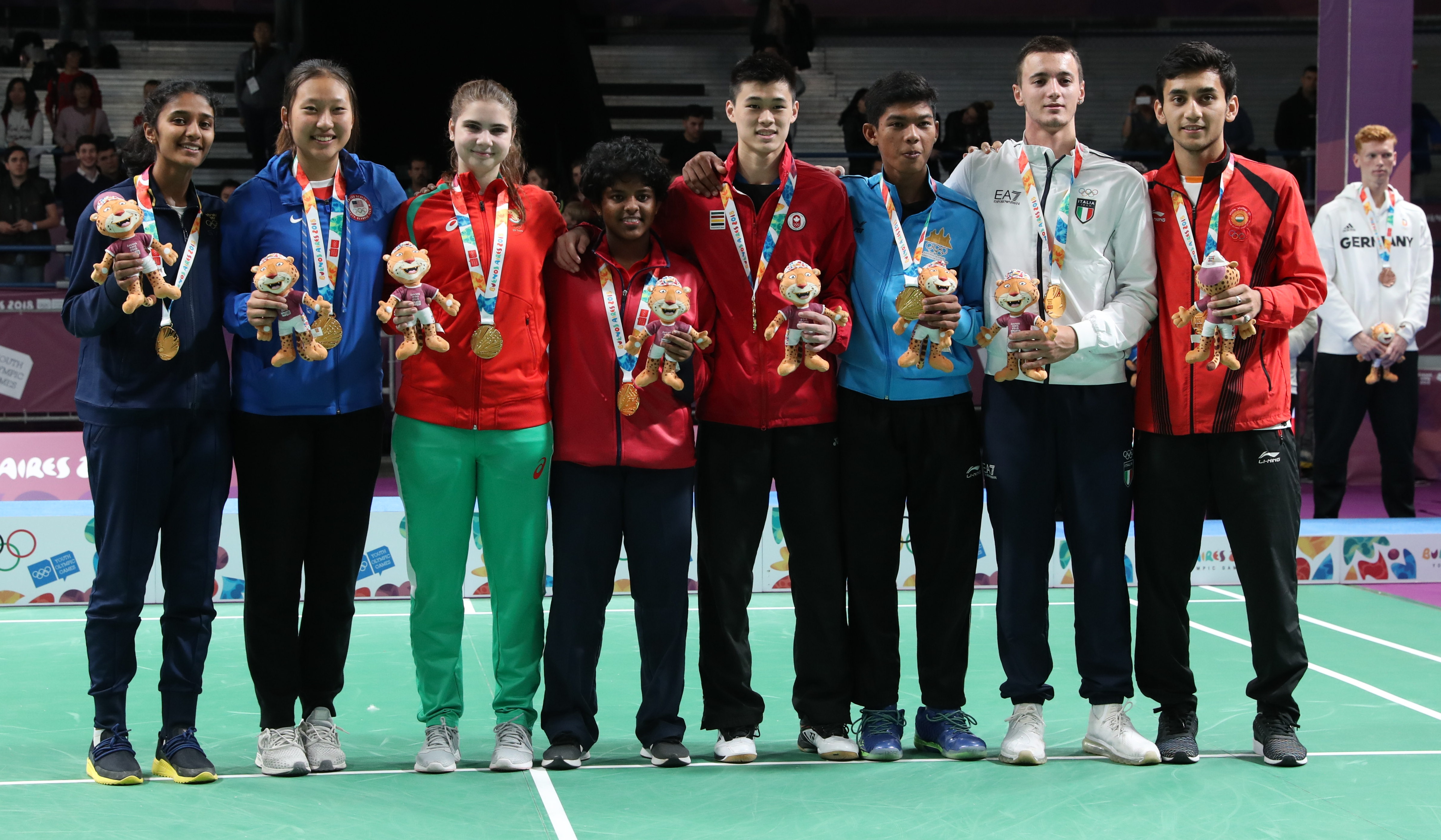 Victory ceremony at the Badminton Mixed International Team competition